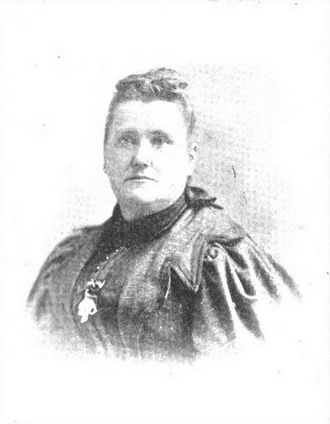 Dr. Amelia Youmans